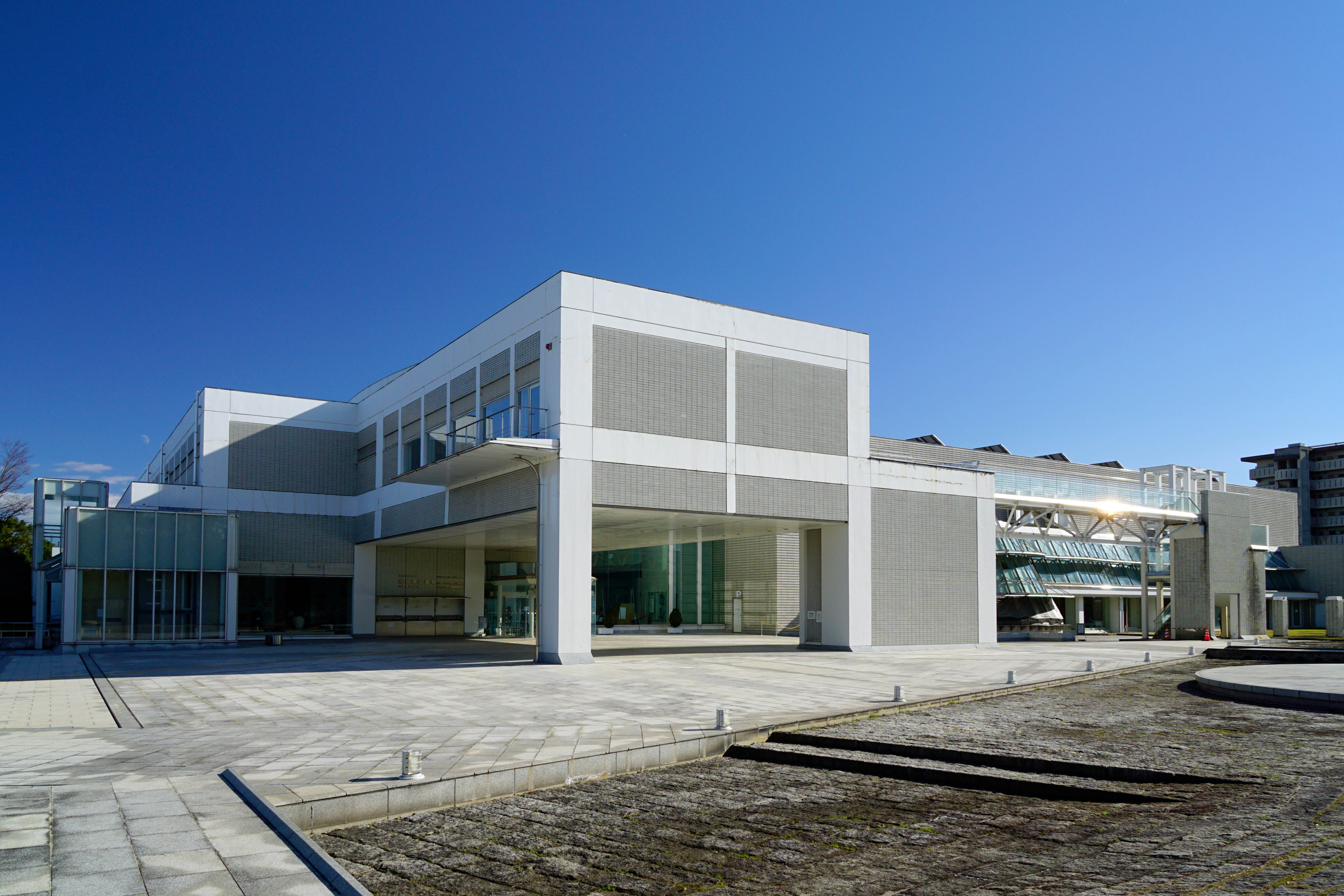 Gifu Prefectural Library in Gifu, Gifu prefecture, Japan